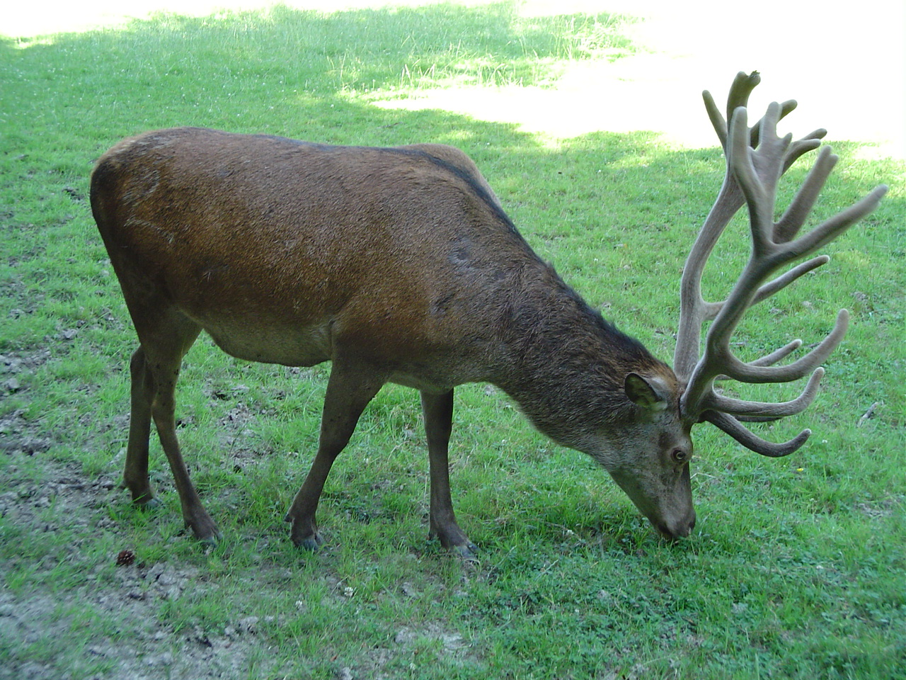 Wikispecies has an entry on: Cervus elaphus